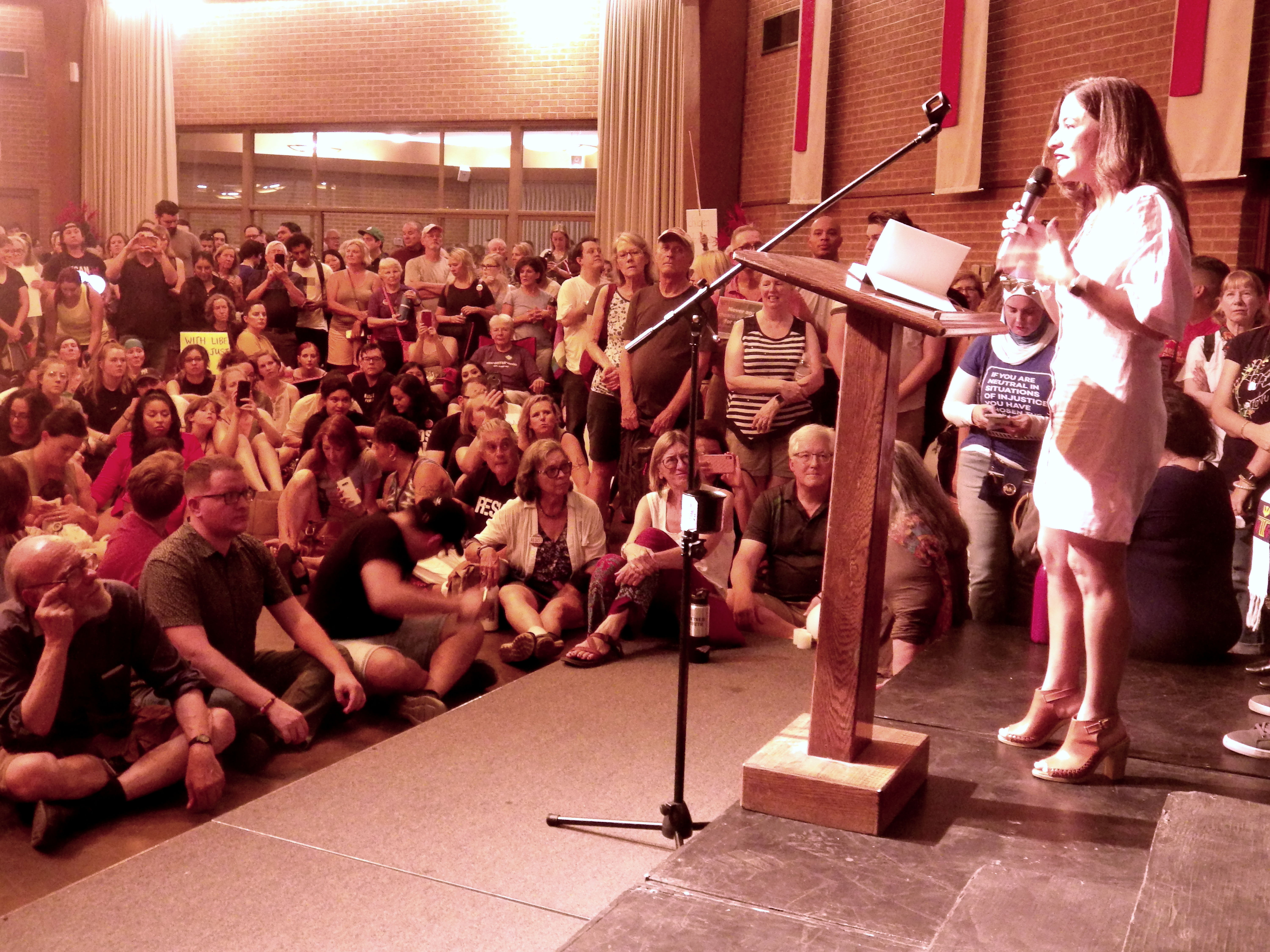 Rep. Isela Blanc speaking at Central Methodist Church in Phoenix AZ,USA July 12, 2019